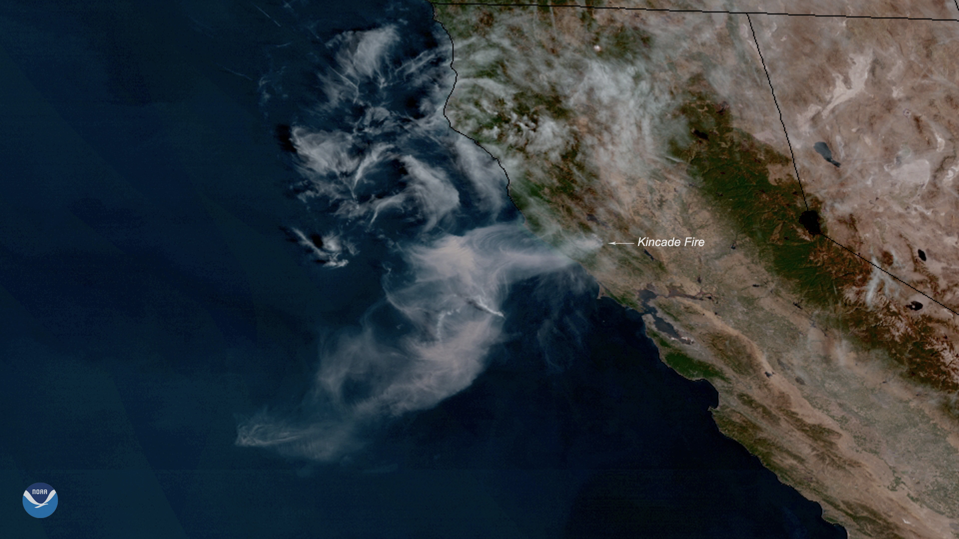 Neighborhoods across parts of Sonoma County, California, are under evacuation orders, and more are expected as the Kincade Fire continues to spread toward Cloverdale. The wildfire, seen here by NOAA's GOES West on Oct. 24, 2019, grew to 10,000 acres overnight, and wind gusts of 35-45 mph continue to aid its rapid expansion. The Kincade Fire was first reported around 9:30 p.m. PT on Wednesday just northeast of the town of Geyserville, according to a Cal Fire incident report. Early Thursday morning, the County of Sonoma issued a mandatory evacuation order for all Geyserville residents, noting that the fire had crossed Highway 128 near Moody Lane and was spreading westward. Much of the Sacramento area, which is located about 80 miles east of Geyserville, is under a Red Flag Warning until 4 p.m. This means critical fire weather conditions, which include a combination of strong winds, low relative humidity, and warm temperatures, are occurring or imminent, according to the National Weather Service. This GeoColor enhanced imagery was created by NOAA's partners at the Cooperative Institute for Research in the Atmosphere. The GOES West satellite, also known as GOES-17, provides geostationary satellite coverage of the Western Hemisphere, including the Western United States, the Pacific Ocean, Alaska, and Hawaii. First launched in March 2018, the satellite became fully operational in February 2019.